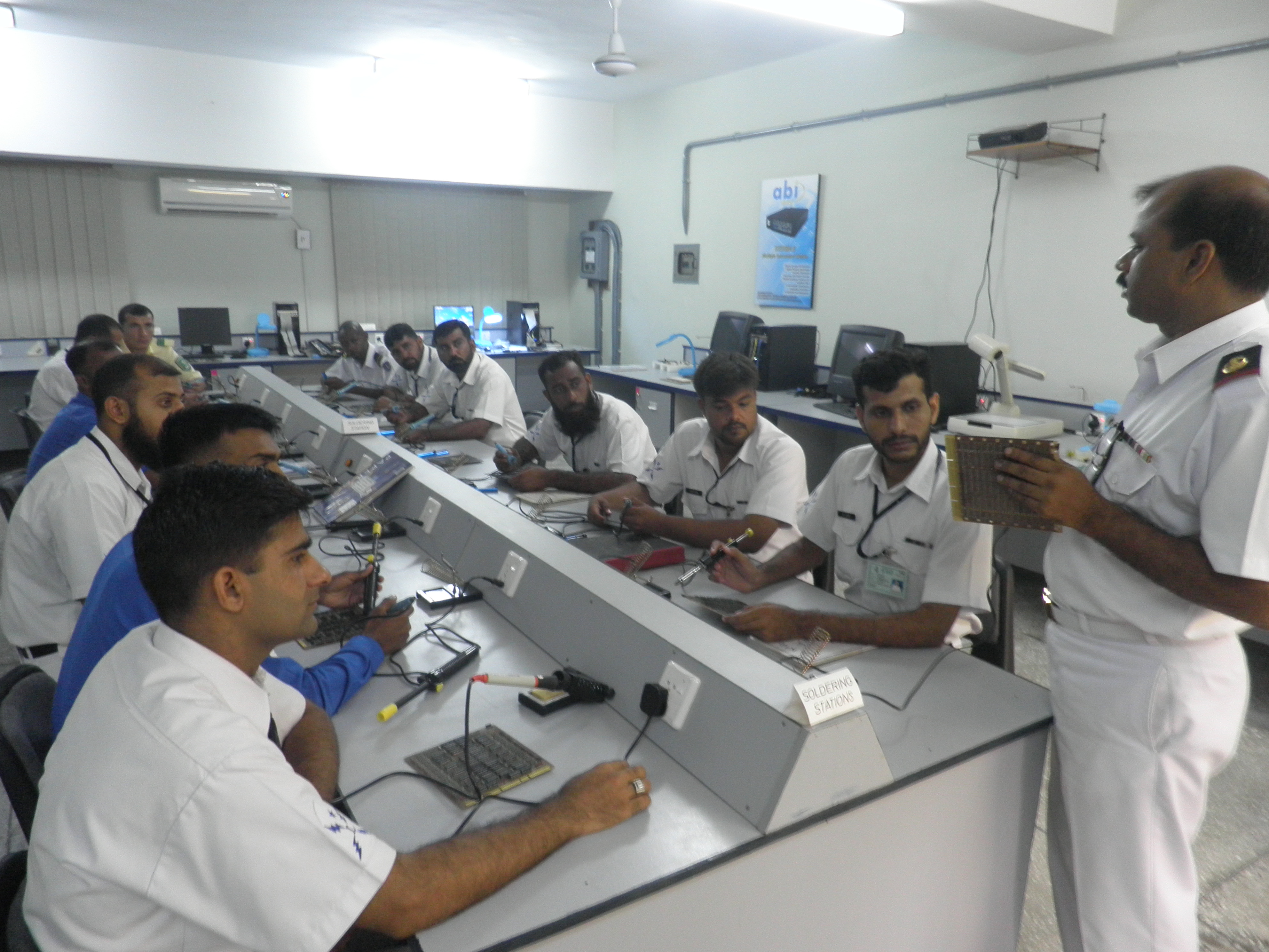 PCB Diagnosis & Repair lab's training session in progress